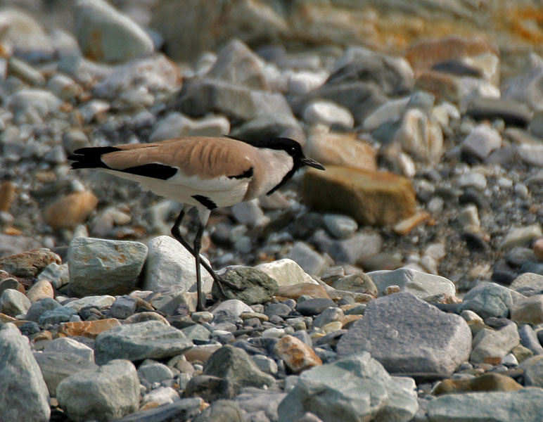 River Lapwing Vanellus duvaucelii at Jayanti in Buxa Tiger Reserve in Jalpaiguri district of West Bengal, India.